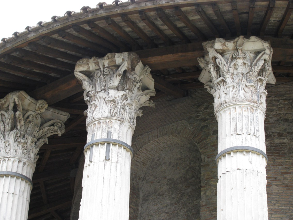 Corinthian capitals of Temple of Herclues Victor, Forum Boarium, Roma